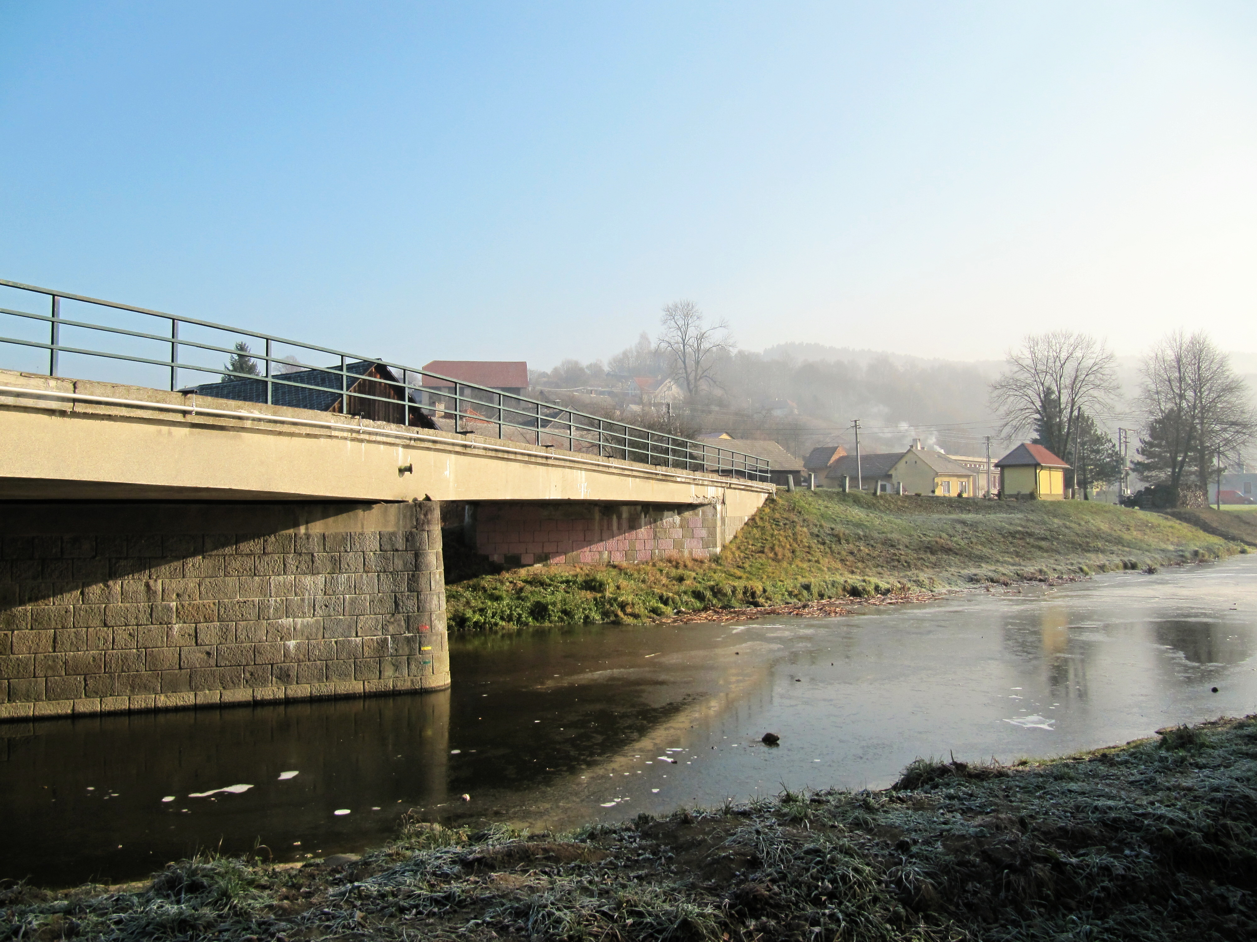 Bohuslavice nad Vláří in Zlín District, Czech Republic. Bridge over the Vlára river.